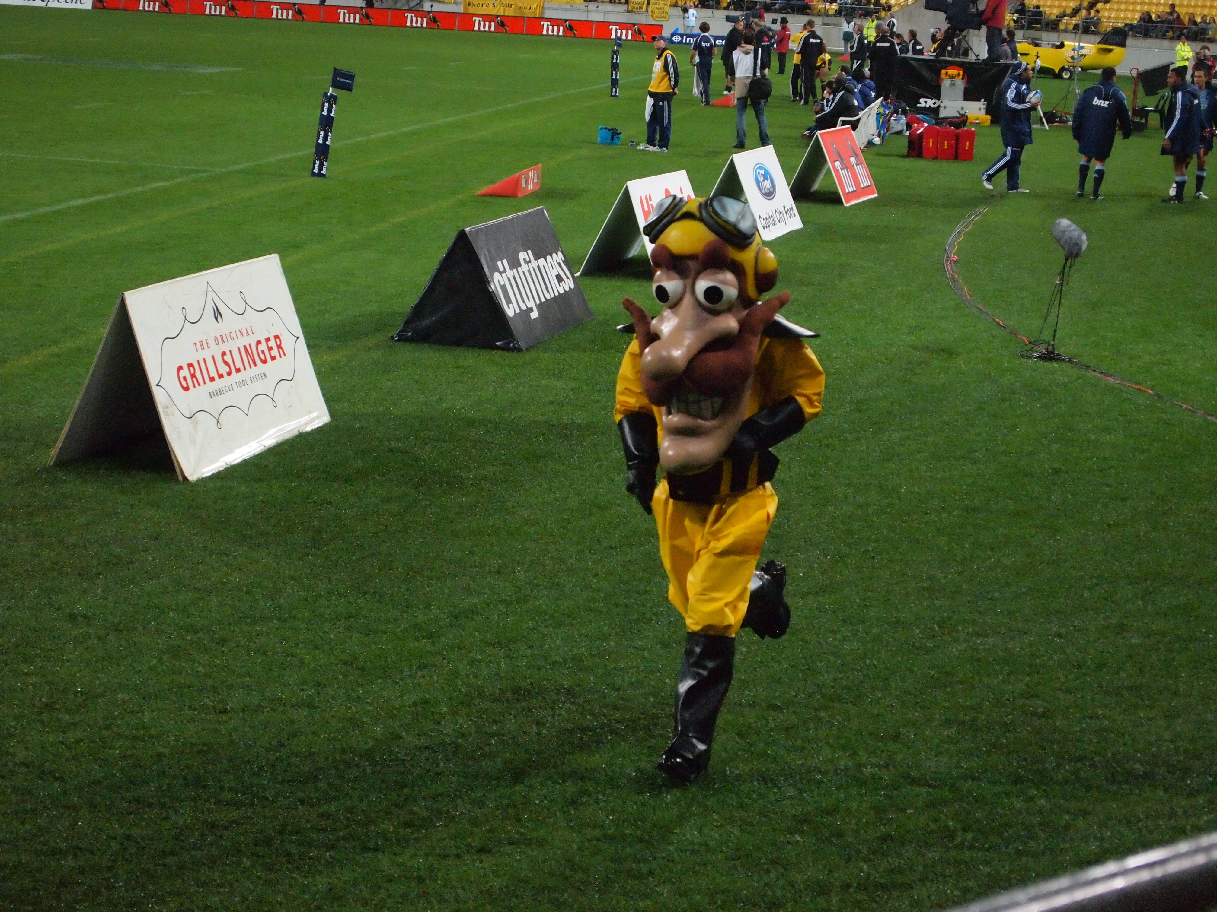 Weird mascot thing